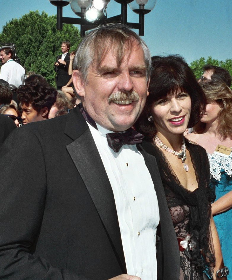 John Ratzenberger on the red carpet at the 1992 Emmy Awards - Permission granted to copy, publish, broadcast or post but please credit "photo by Alan Light" if you can